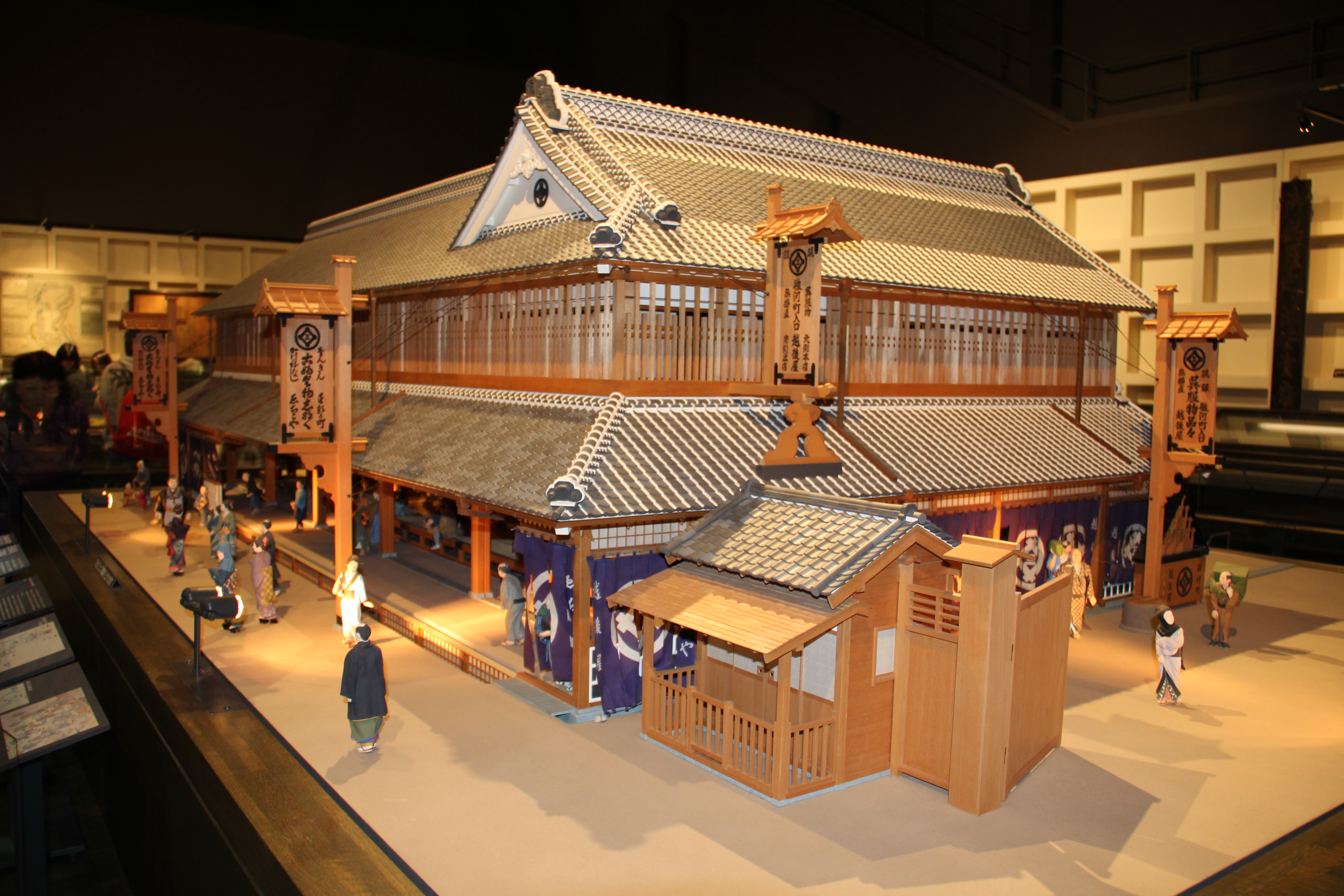 1/10 model of Mitsui Echigo-ya Kimono Shop in the Edo-Tokyo Museum.